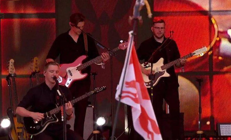 The Fox and Cinquefoil of Leicestershire at Glastonbury music festival